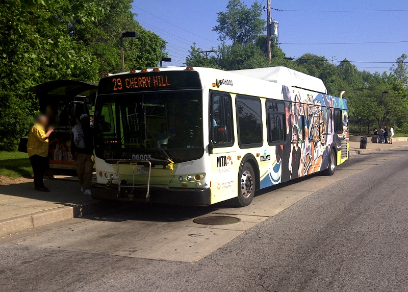 MTA Maryland New Flyer #6003 on the #29 line at Cherry Hill Light Rail Station.